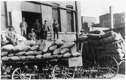 26th car of pinon nuts shipped by the Charles Ilfield Company, Charles E. Doll manager, Santa Fe, New Mexico Photo Archives, Palace of the Governors, Santa Fe